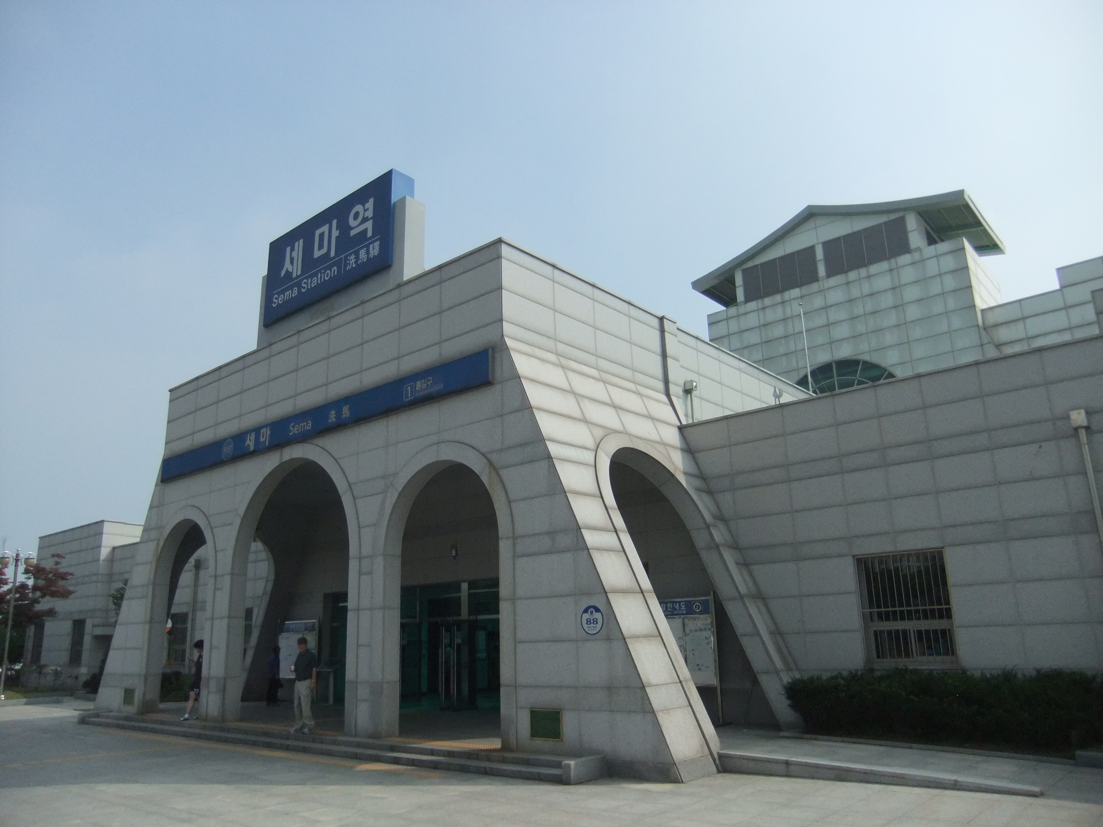 sema station at gyeongbu line in korea